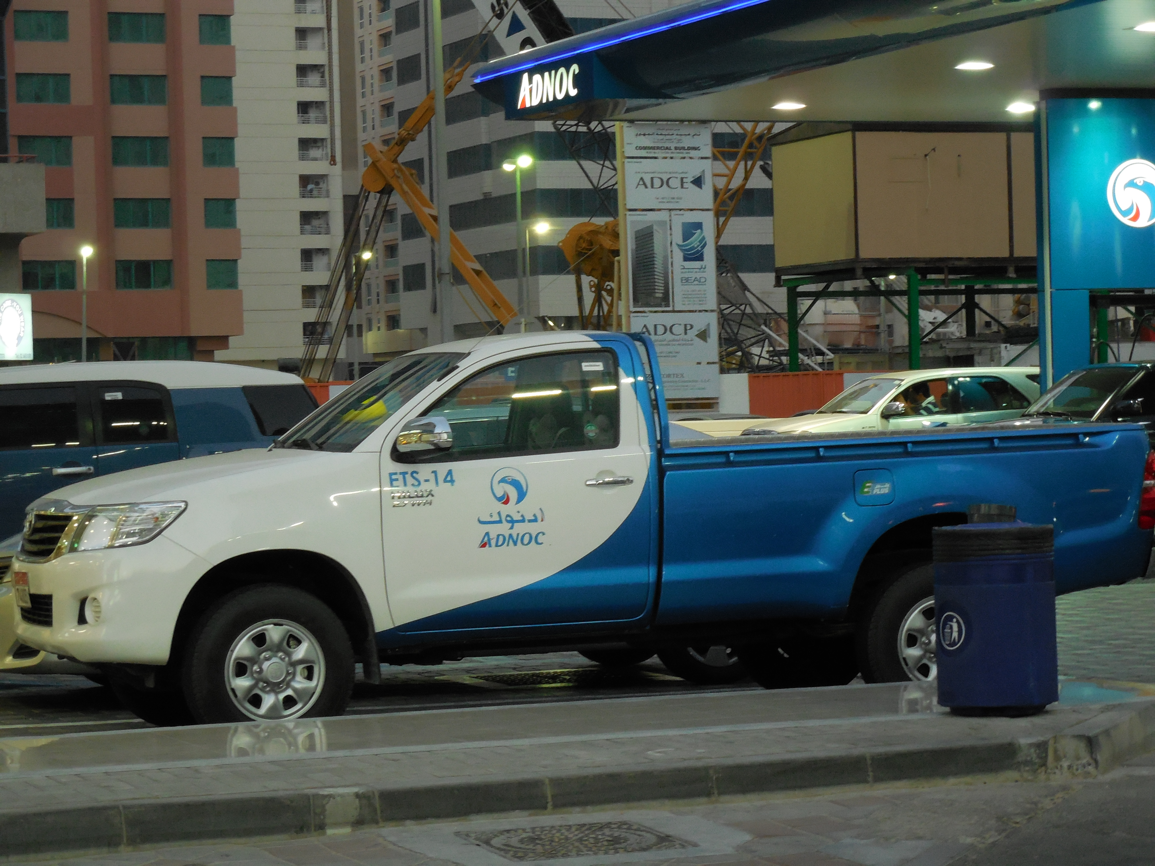 Toyota Hilux pickup truck of Abu Dhabi National Oil Company (ADNOC ) in Abu Dhabi, UAE.